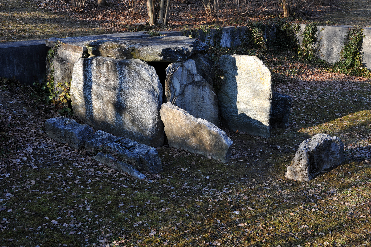 The dolmen of Auvernier at the Laténium in Hauterive; Neuchâtel, Switzerland. The five-meter long dolmen lay originally in a vineyard south west of Auvernier, near the lake. 1876​​, von Gross discovered the three-chamber grave. For many years it lay at the maintenance area of the archaeological service (556810/202273) near the discovery site until it was moved 2004 to its present location at the Laténium.